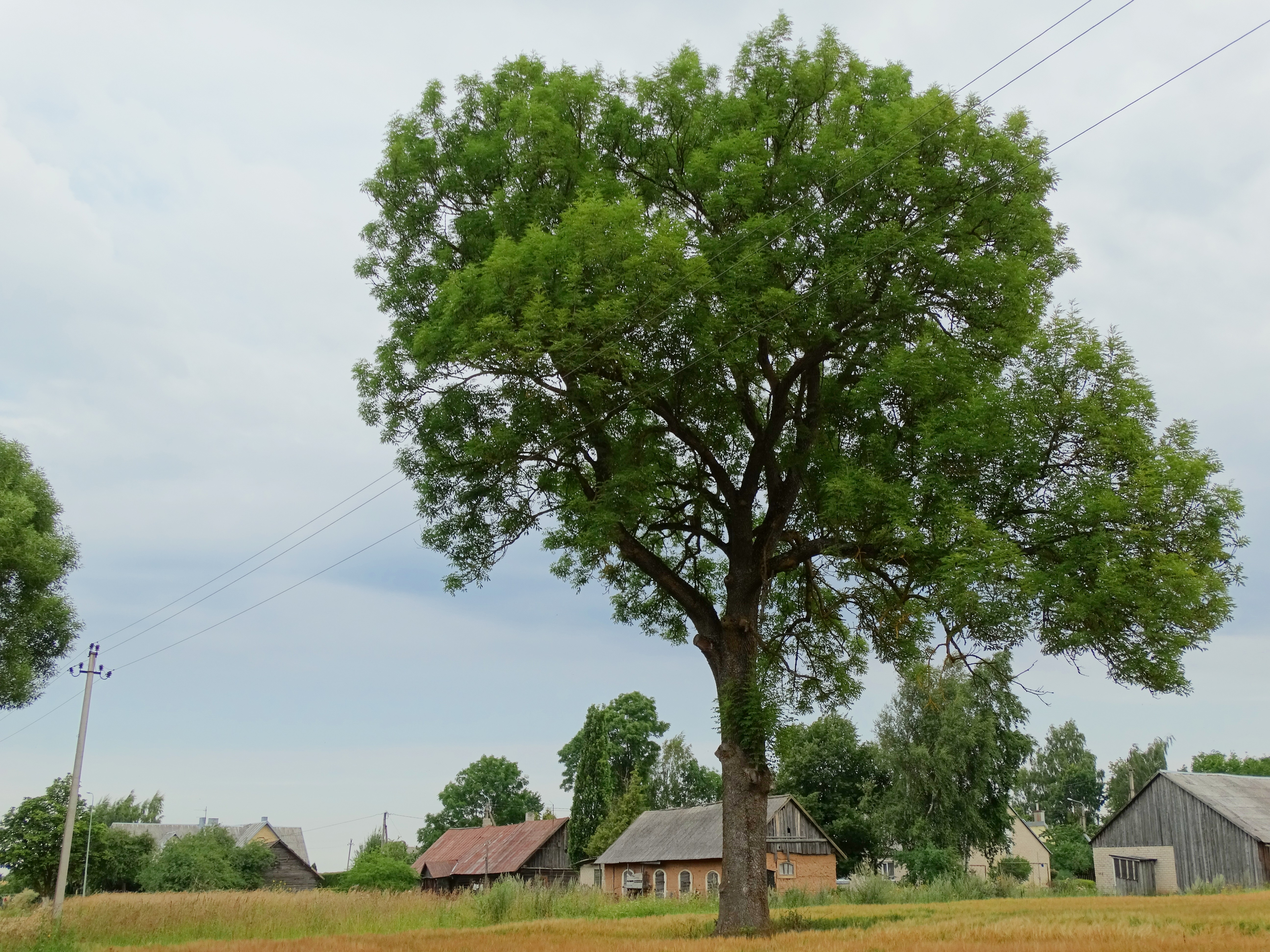 Ash tree, Kairiai, Šiauliai district, Lithuania